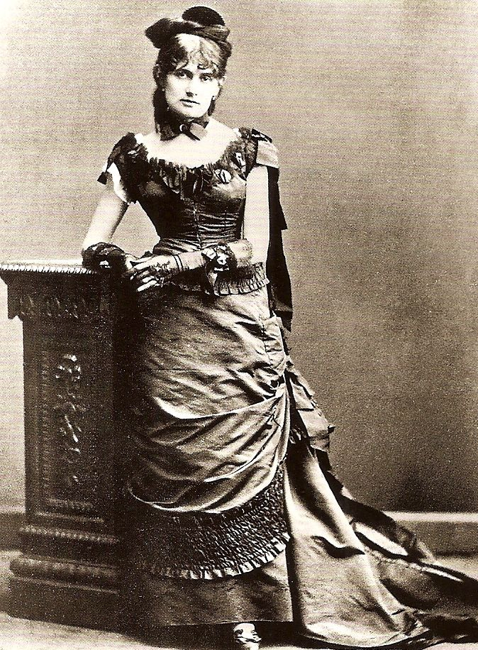 Berthe Morisot